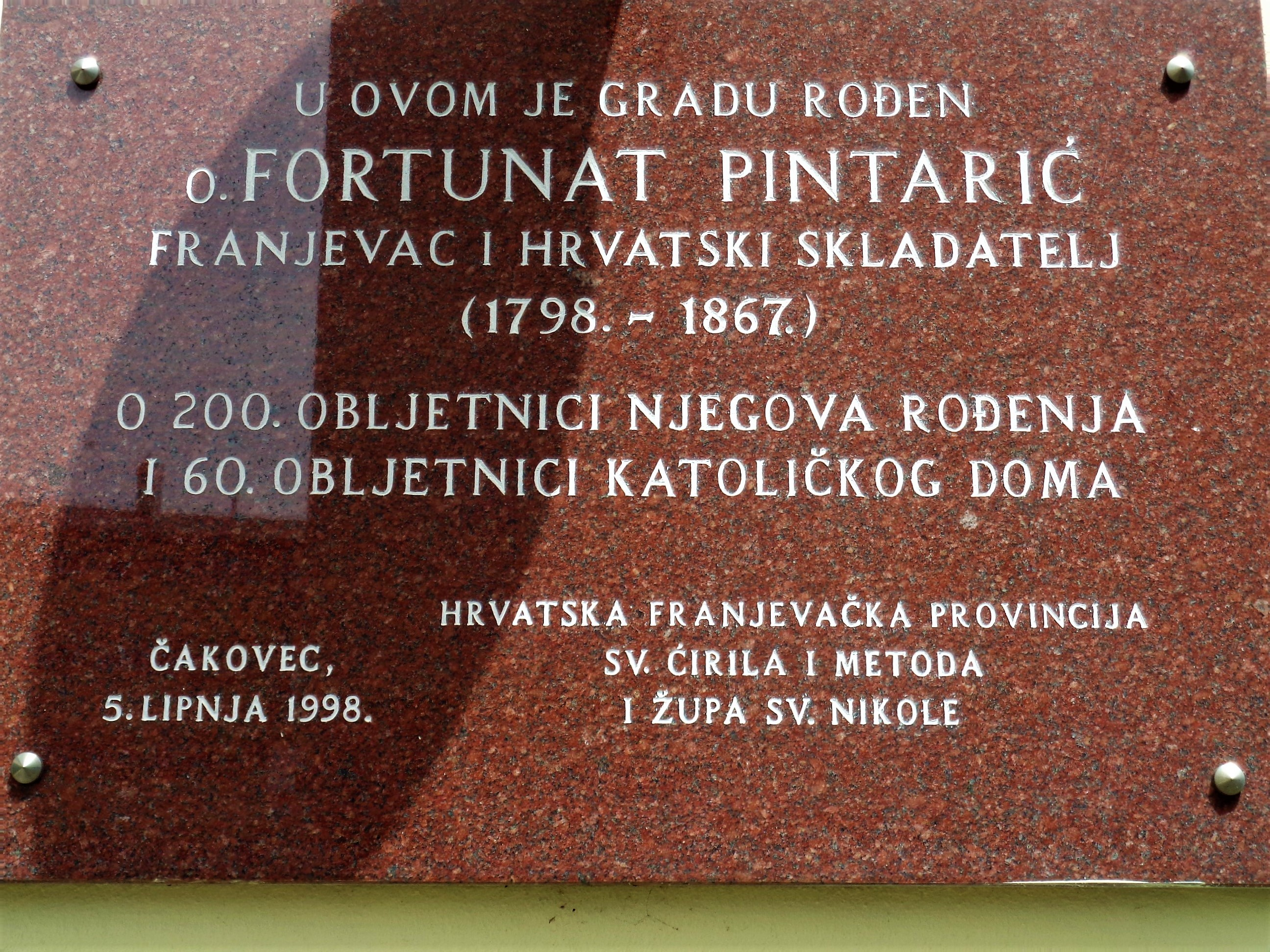 Memorial stone plaque to Fortunat Pintarić (1798-1867), Croatian composer, in Čakovec, Medjimurie County, Croatia